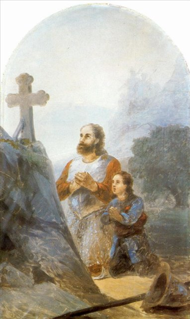 Oath beforу Battle of Avarayr (Vardan Mamikonian, V cent.)